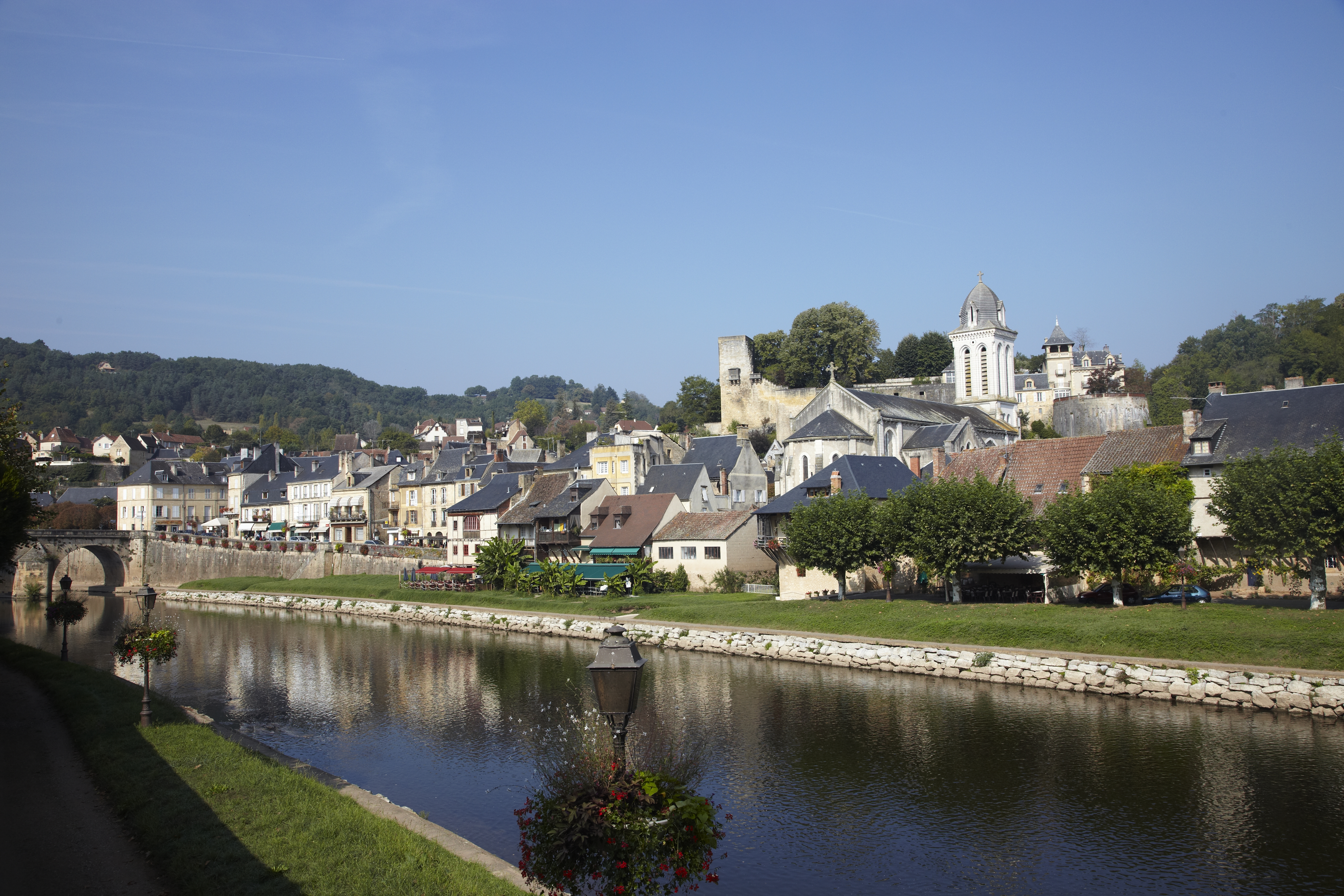 Montignac (rive droite) vue des quais de la Vézère